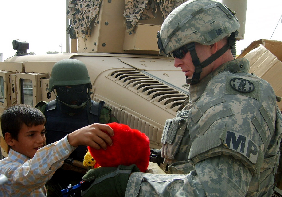 SGT Michael Ullerich, a military police office with U.S. Army Europe's 127th Military Police Company, hands out toys to kids at the Haswah market in Iskandariyah, Iraq. The masked Iraqi police have become legendary in the Iskandariyah District for driving out insurgents. The 127th is part of USAREUR's 18th MP Brigade, but currently attached to Fort Hood, Texas's 720th MP Battalion in Iraq.